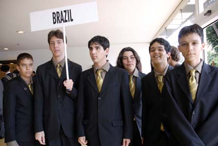 Equipe brasleira da IJSO 2006.